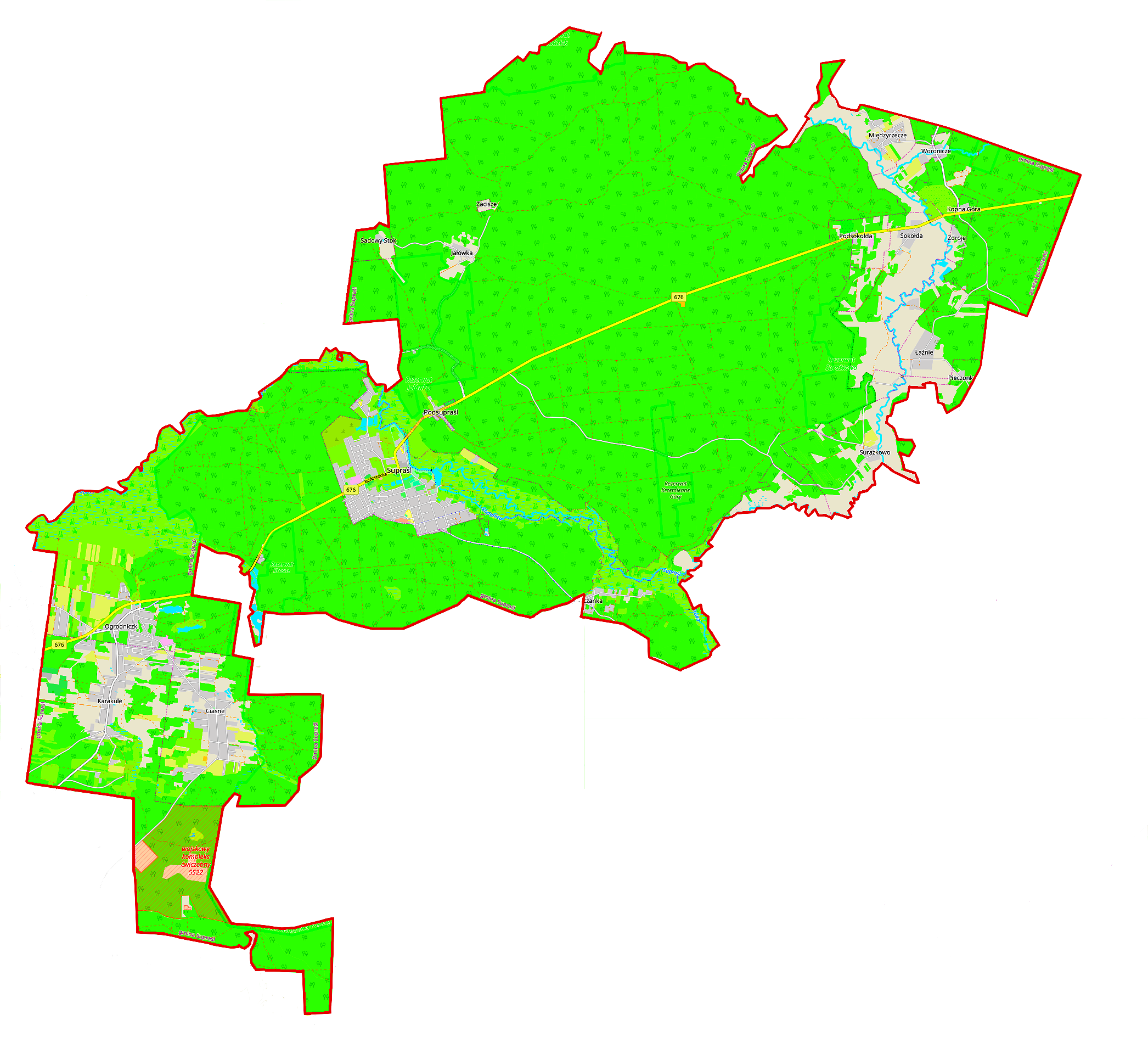 Map of Gmina Supraśl, Poland This map of Supraśl (gmina) was created from OpenStreetMap project data, collected by the community. This map may be incomplete, and may contain errors. Don't rely solely on it for navigation. Border coordinates53.280423.2169←↕→23.516953.0957